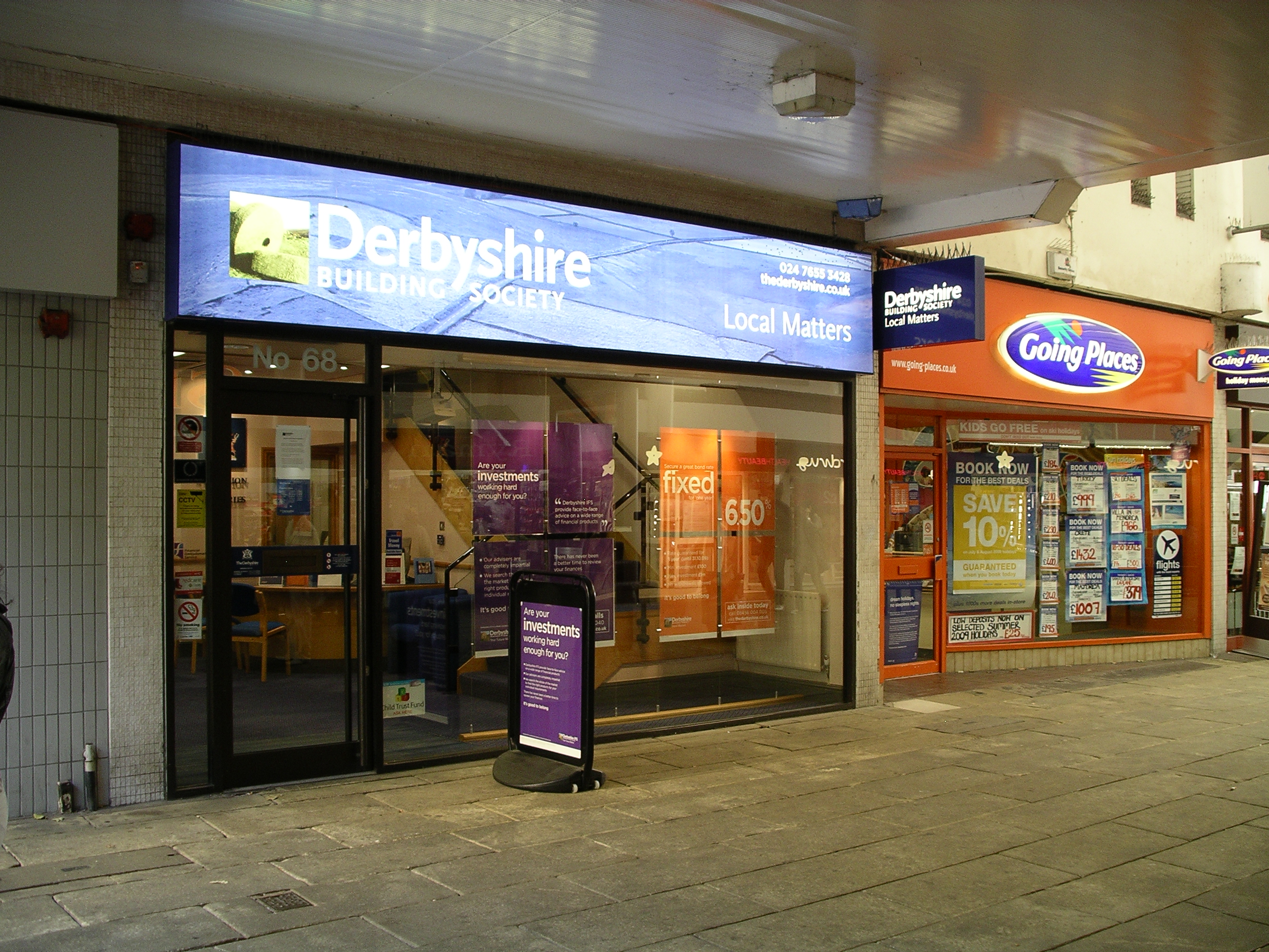 Derbyshire Building Society in Hertford Street, Coventry, England